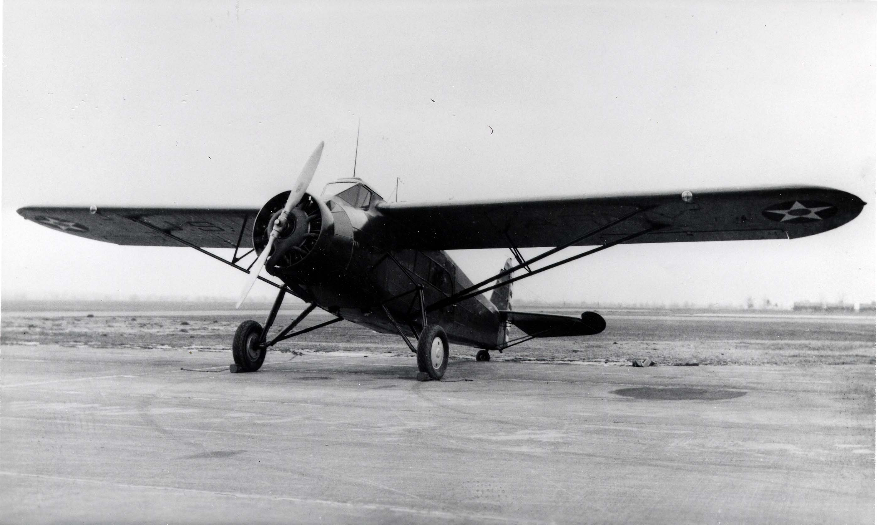 An American/Fairchild Y1C-24 (Fairchild Model 100) of the U.S. Army Air Corps on the ramp.